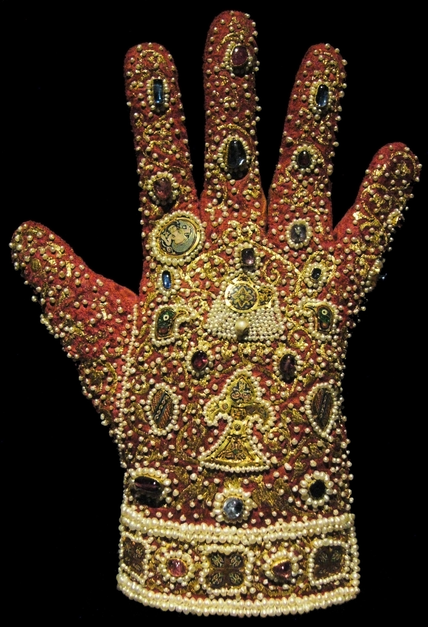 Imperial Glove in Schatzkammer in Vienna, Austria. Made in Palermo before 1220. Velvet with gold embroidery, pearls, and precious stones.